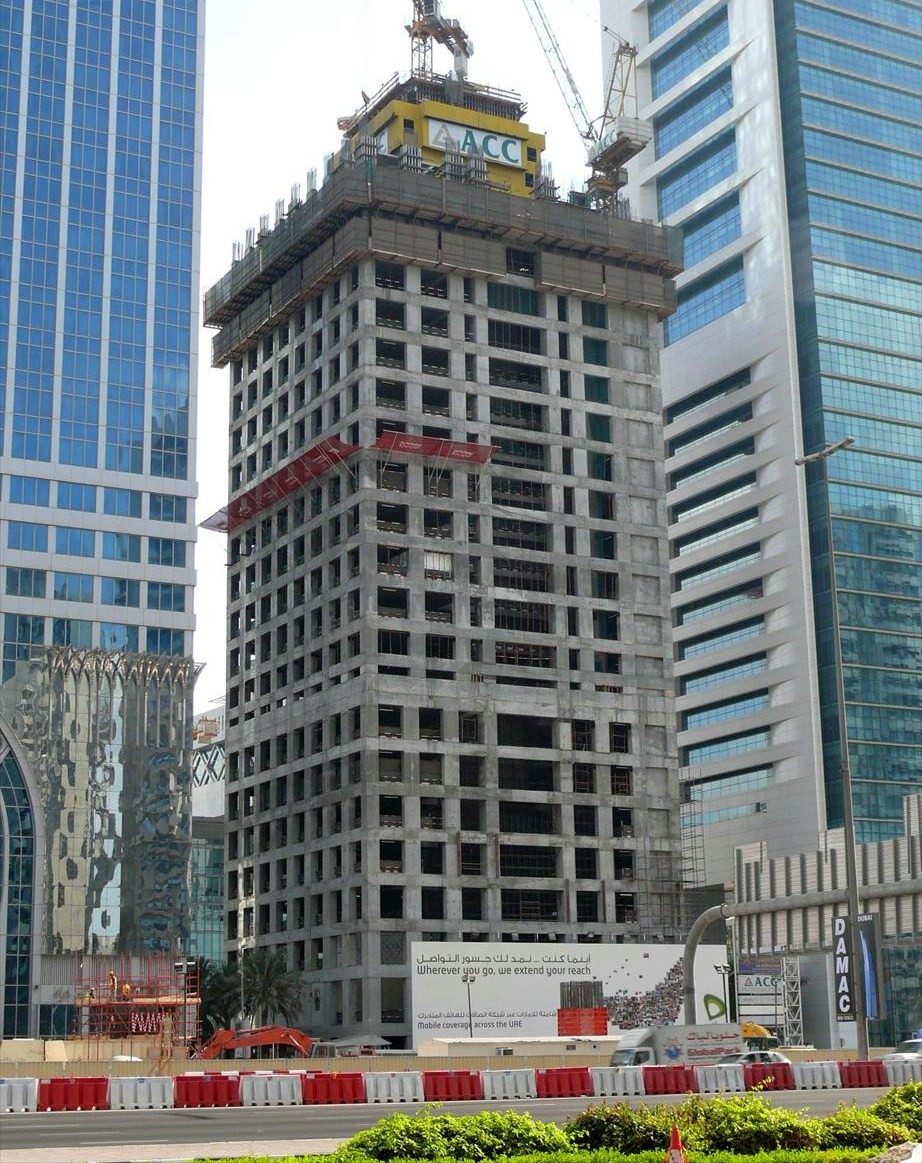 This is a photo showing the construction of Al Yaquob Tower, located along Sheikh Zayed Road in Dubai, United Arab Emirates, on 28 December 2007.